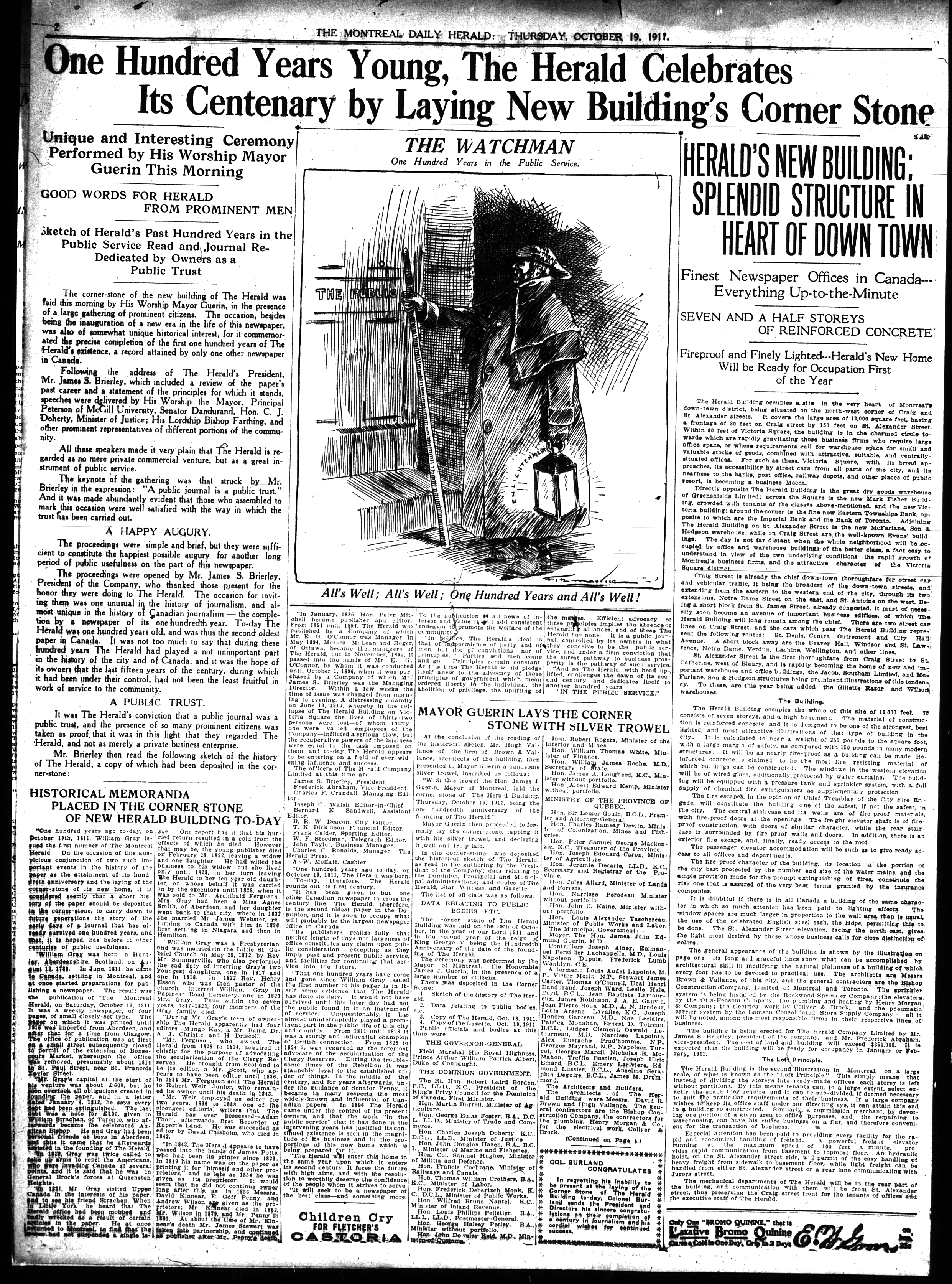 At one hundred years old, The Montreal Herald write about his history.